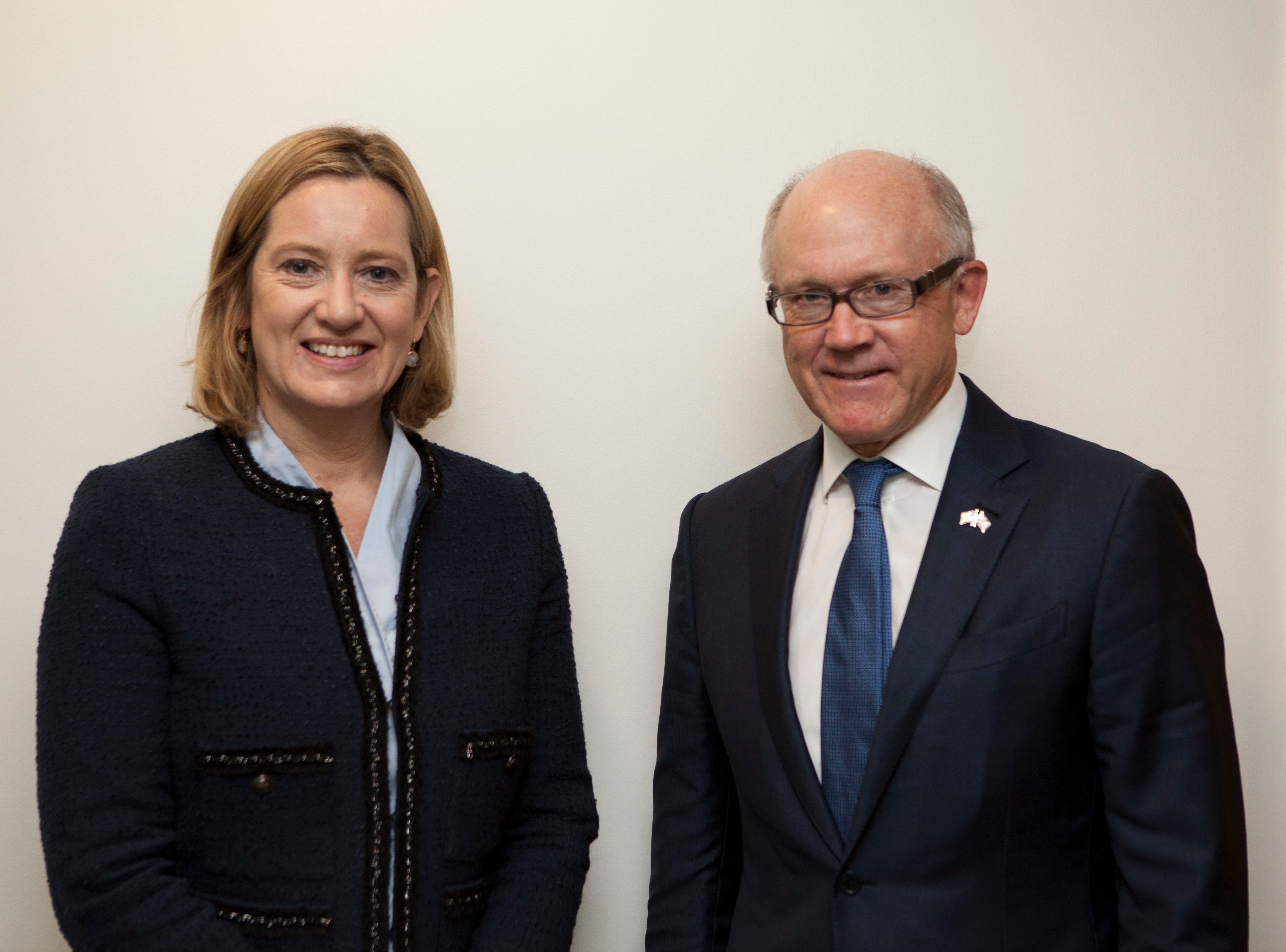 Good meeting w/ UK Home Secretary @AmberRuddHR this morning in which I offered full U.S. support & assistance in the fight against terrorism